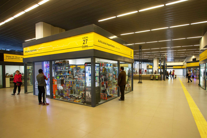 Interior of the Intendente Saguier interchange of the Buenos Aires Premetro.